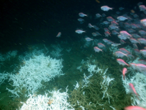 A L. pertusa reef with a school of Beryx splendens. Image courtesy of Lophelia II 2009: Reefs, Rigs, & Wrecks, NOAA-OER; photo taken with an AquaPix camera.